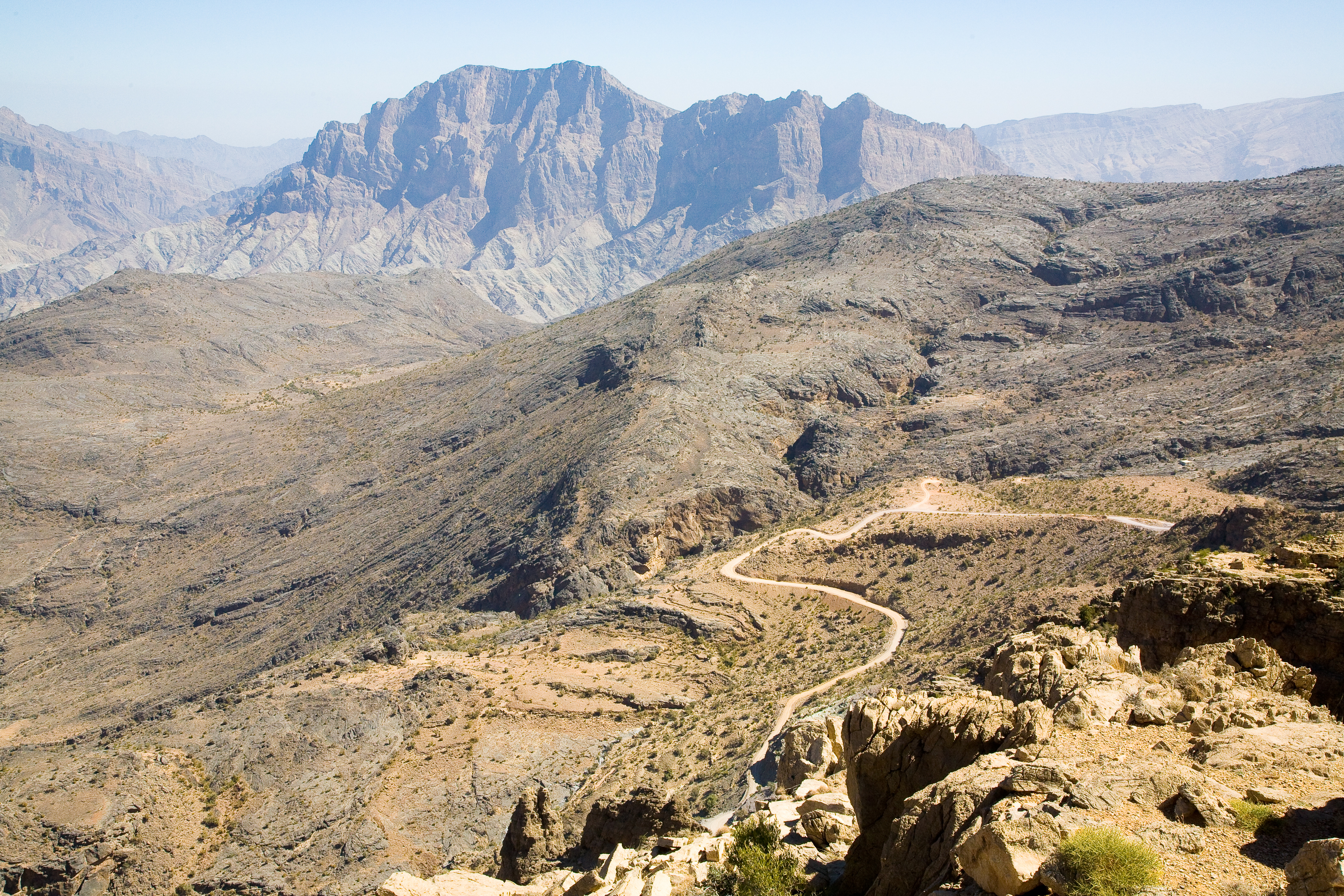 Mountain road from Nizwa to Wadi Bani Awf